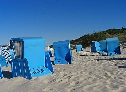 Beach from Ahlbeck on the Baltic sea